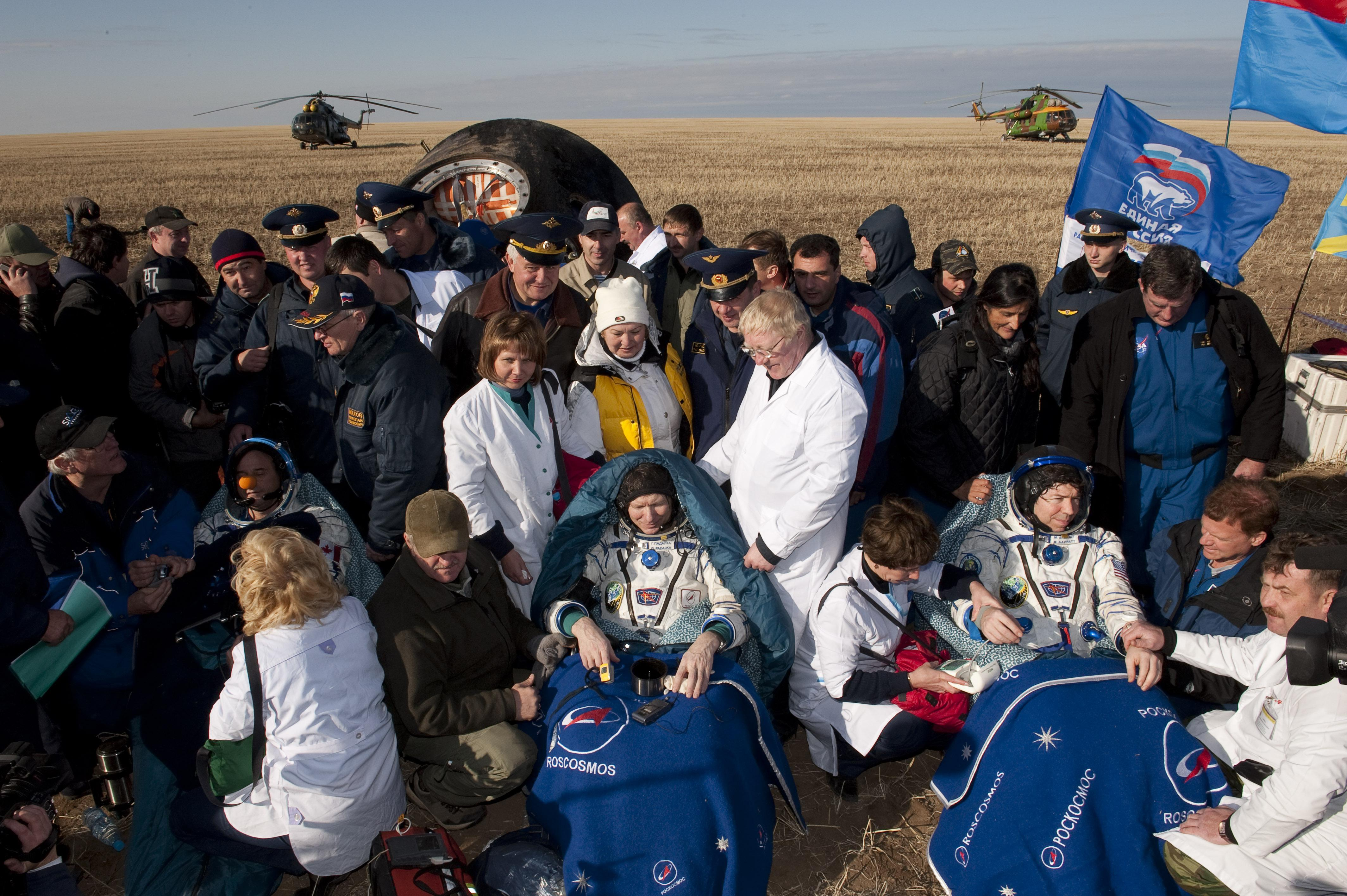 Surrounded by medical personnel, seated from left to right are space-flight participant Guy Laliberte, Expedition 20 Commander Gennady Padalka and Expedition 20 Flight Engineer Michael Barratt.They landed aboard the Soyuz capsule near the town of Arkalyk, Kazakhstan. Padalka and Barratt are returning from six months onboard the International Space Station, along with Laliberte who arrived at the station with Expedition 21 Flight Engineers Jeff Williams and Maxim Suraev aboard the Soyuz TMA-16 spacecraft.